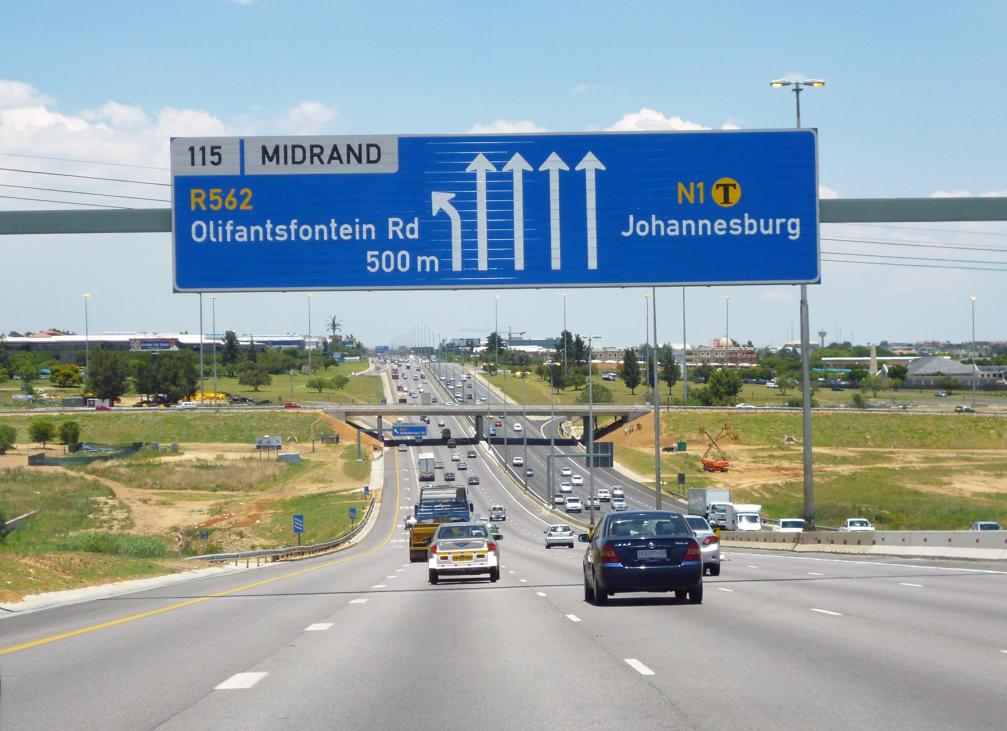 The N1 freeway heading southbound through Midrand, South Africa towards Johannesburg (from Pretoria). Photographed by user Coolcaesar on November 26, 2011.